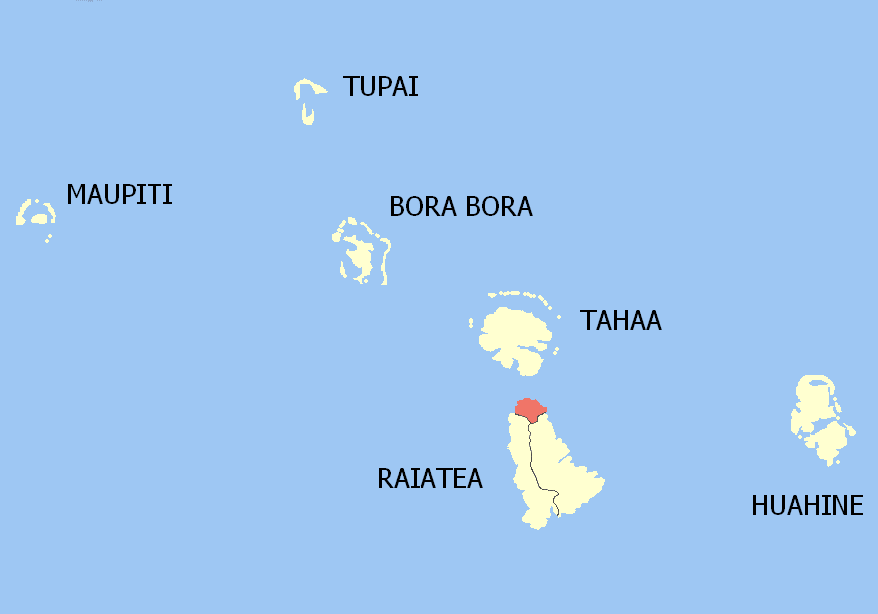 Location of the community of Uturoa, Raiatea Island, Society Islands